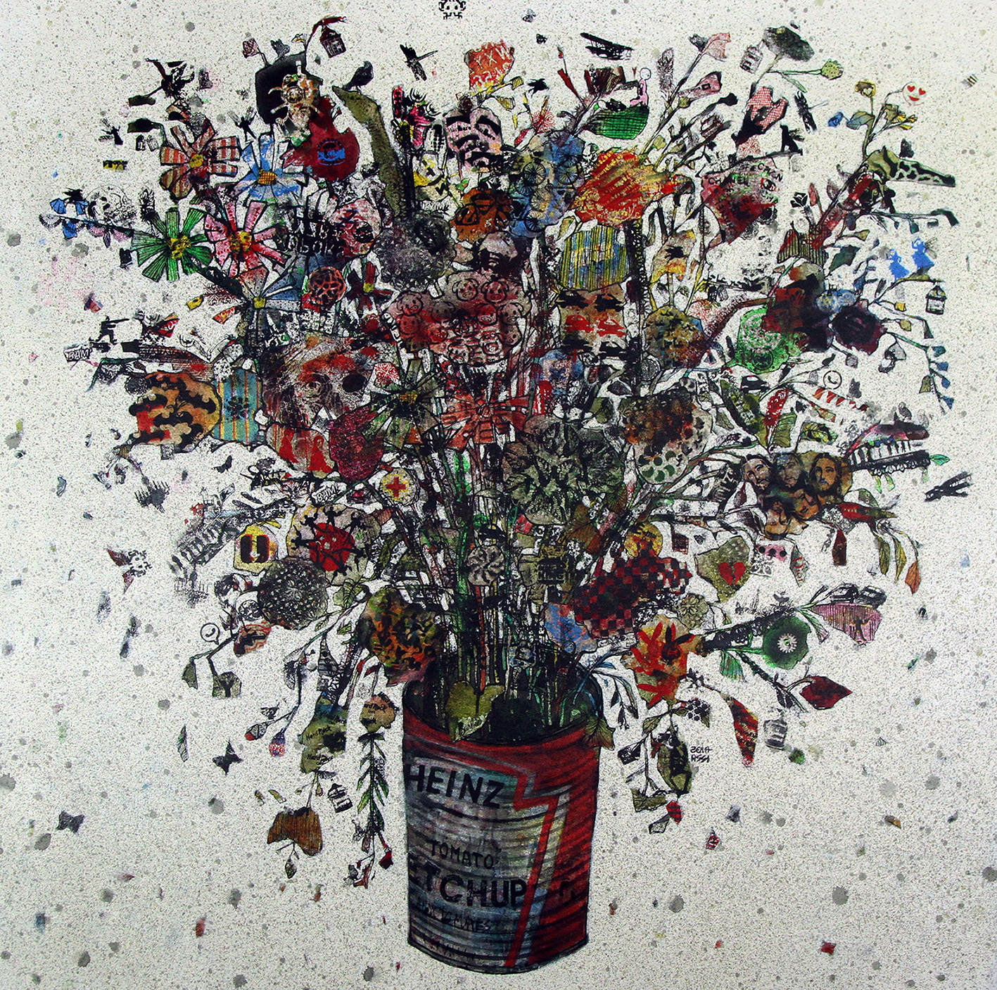 bouquet